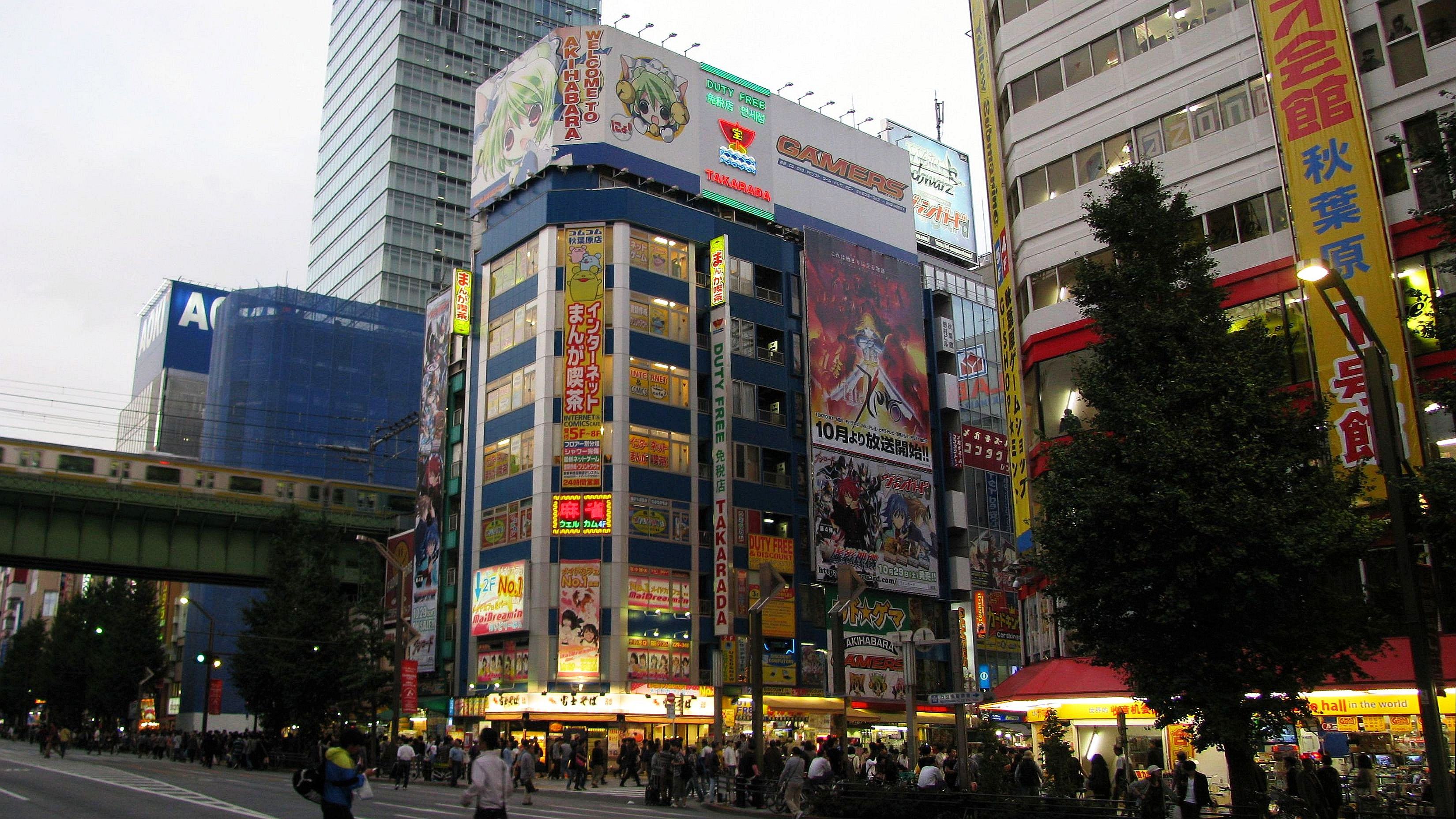 The Gamers Main store in the Akihabara. This location is in Chiyoda, Tokyo, Japan.